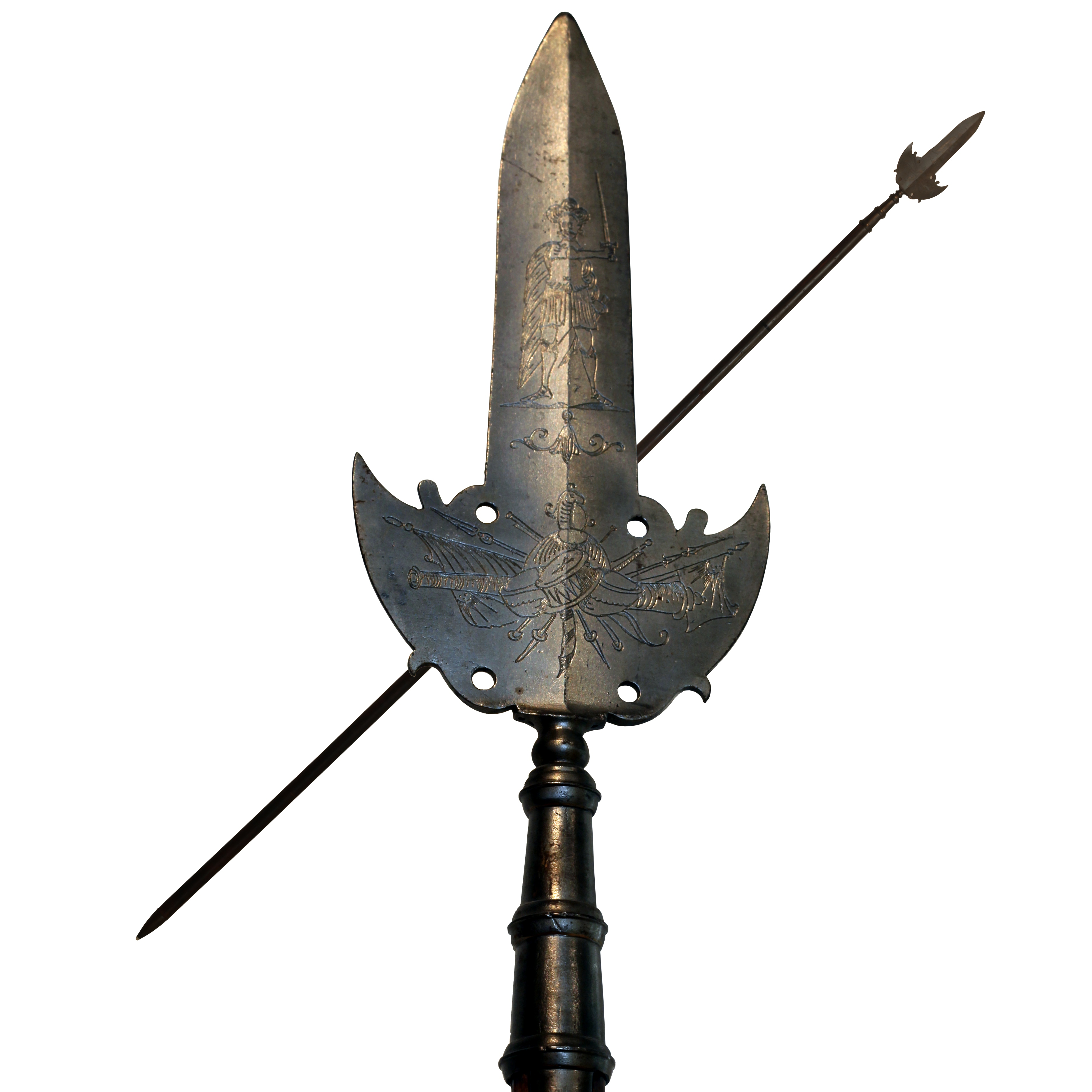 Spontoon, 1st half of the 18th century. On display at Morges military museum, accession number 54.